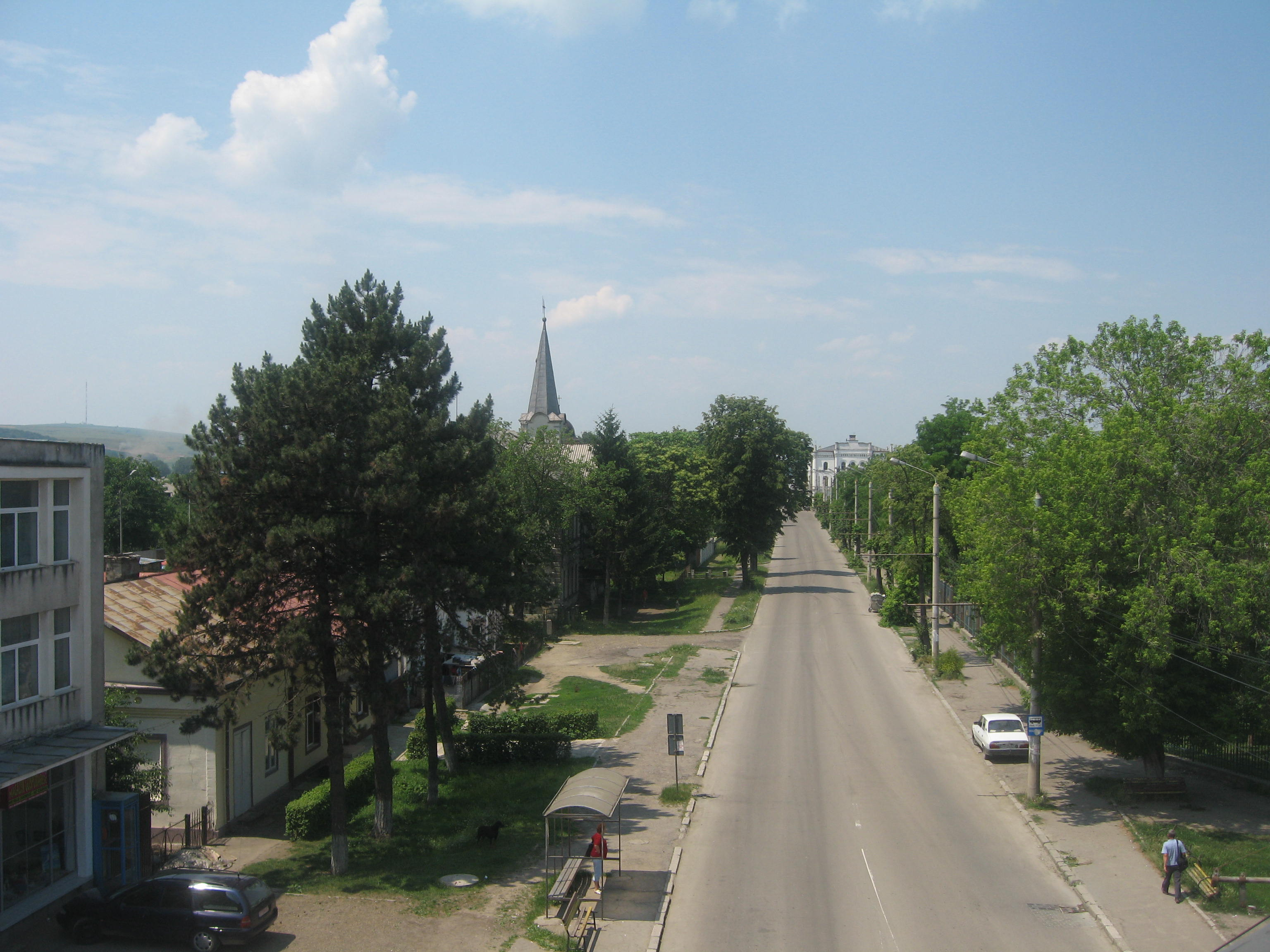 Gării Street in Iţcani, Suceava.